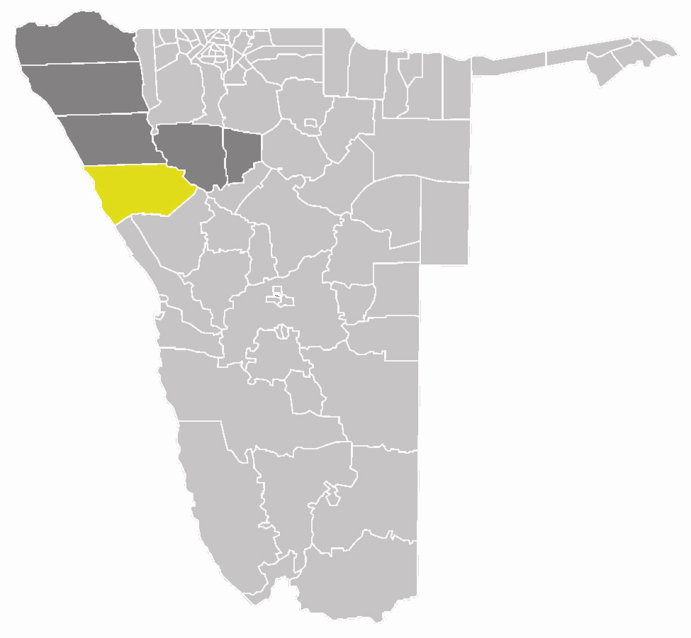 map of the Khorixas constituency within the Kunene region, Namibia